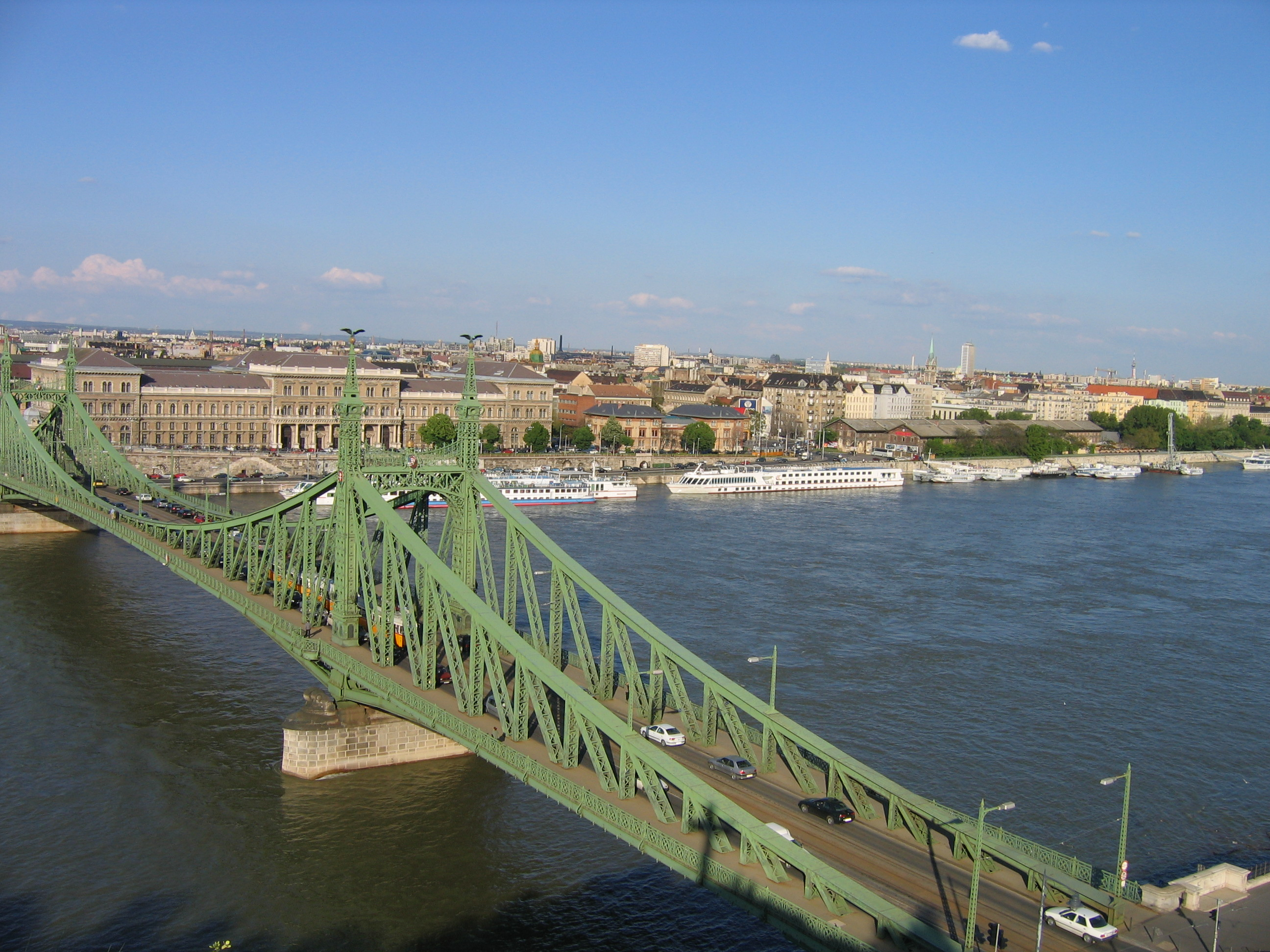 Liberty Bridge (Szabadság híd) and Corvinus University Budapest, Hungary